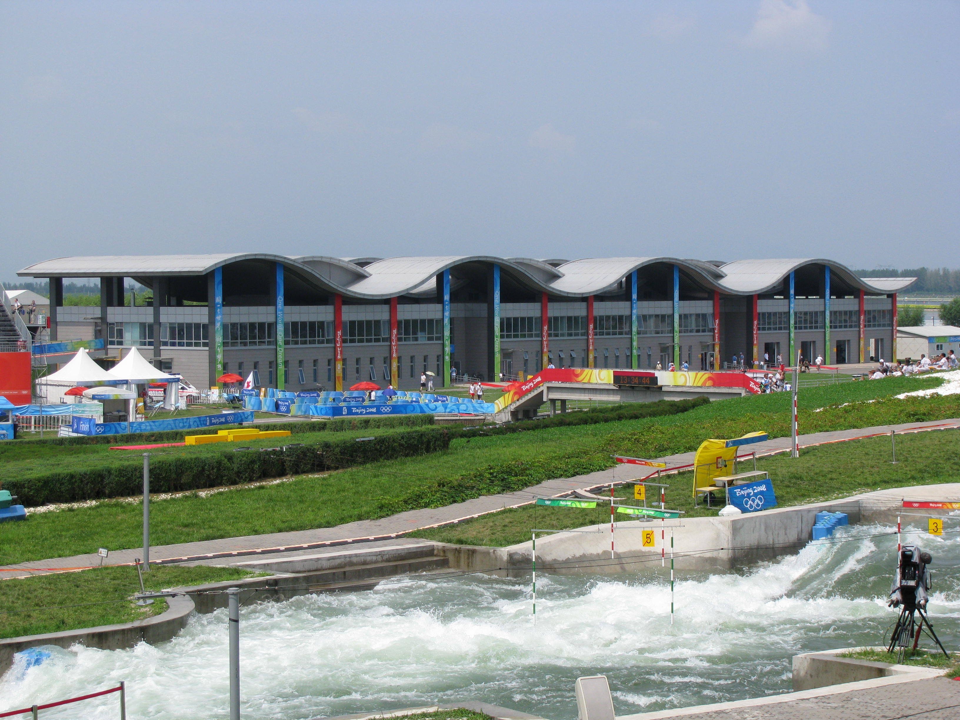 Top of Shunyi Slalom Course, 2008 Olympic Games, Beijing, China.